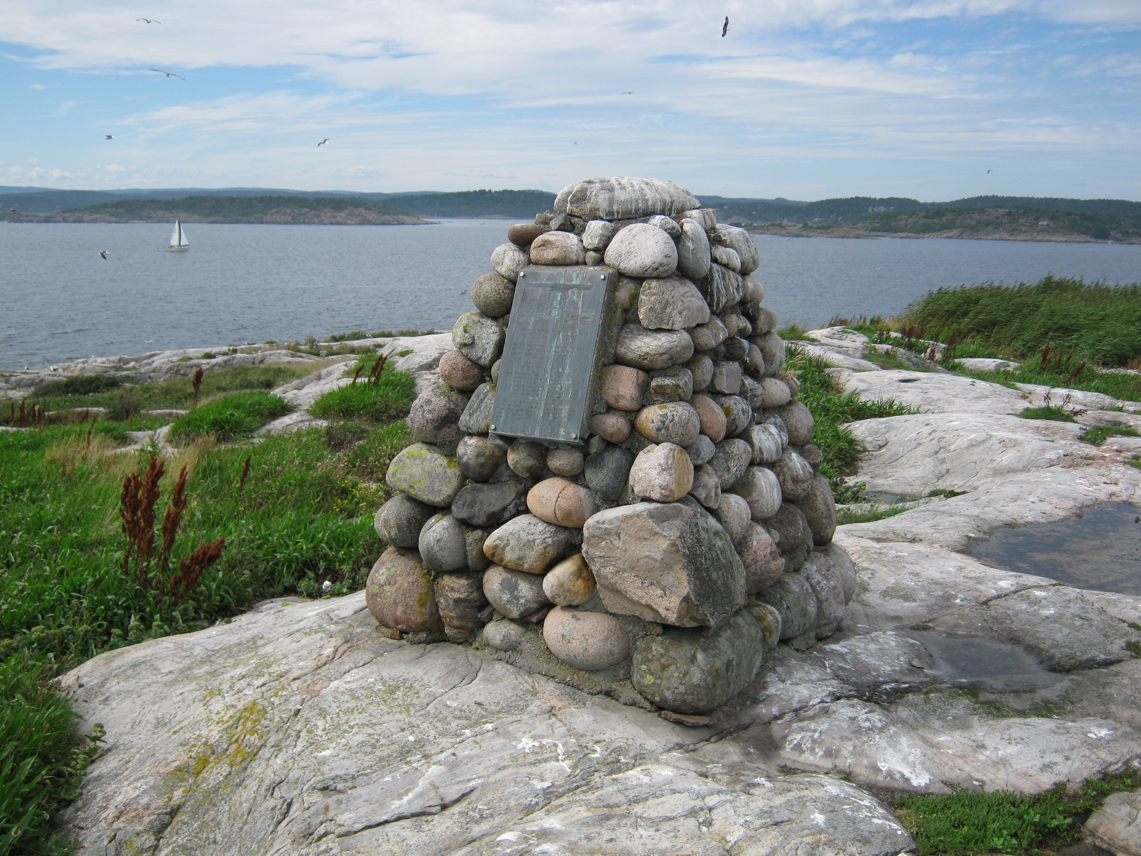 Memorial for RAF bomber shot down at Torungen in Arendal Norway february 25 1945